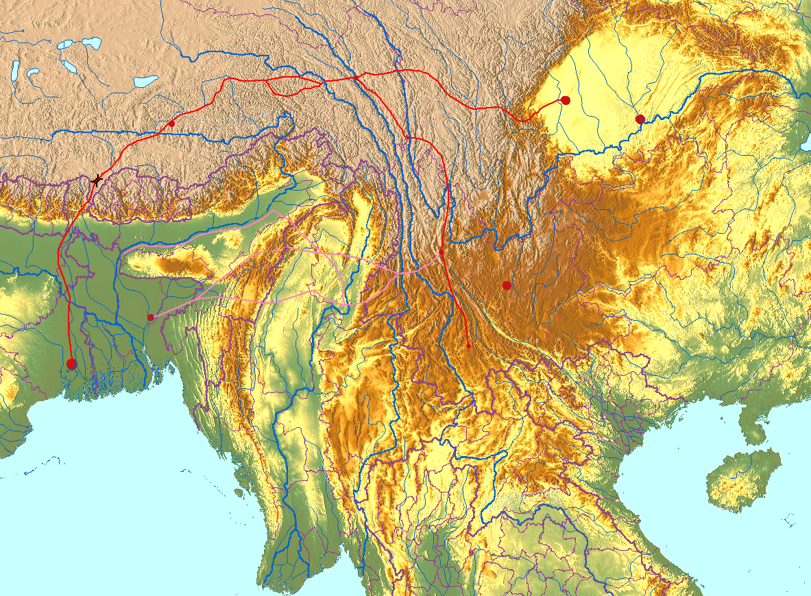 Map of the ancient Tea and Horses Road without names, so that the names can be added in any spelling or characters.The Tea-(and)-Horse(s) route from Yunnan and Sichuan to Tibet and Bengal was one of the ancient Tea routes, with variants itself. The courses are drawn according to a combination of informations from Chinaexpat: The ancient Tea-Horse-Road, and informations from Andrées Weltatlas from 1880, printed, when the route was a main traderoute, still.